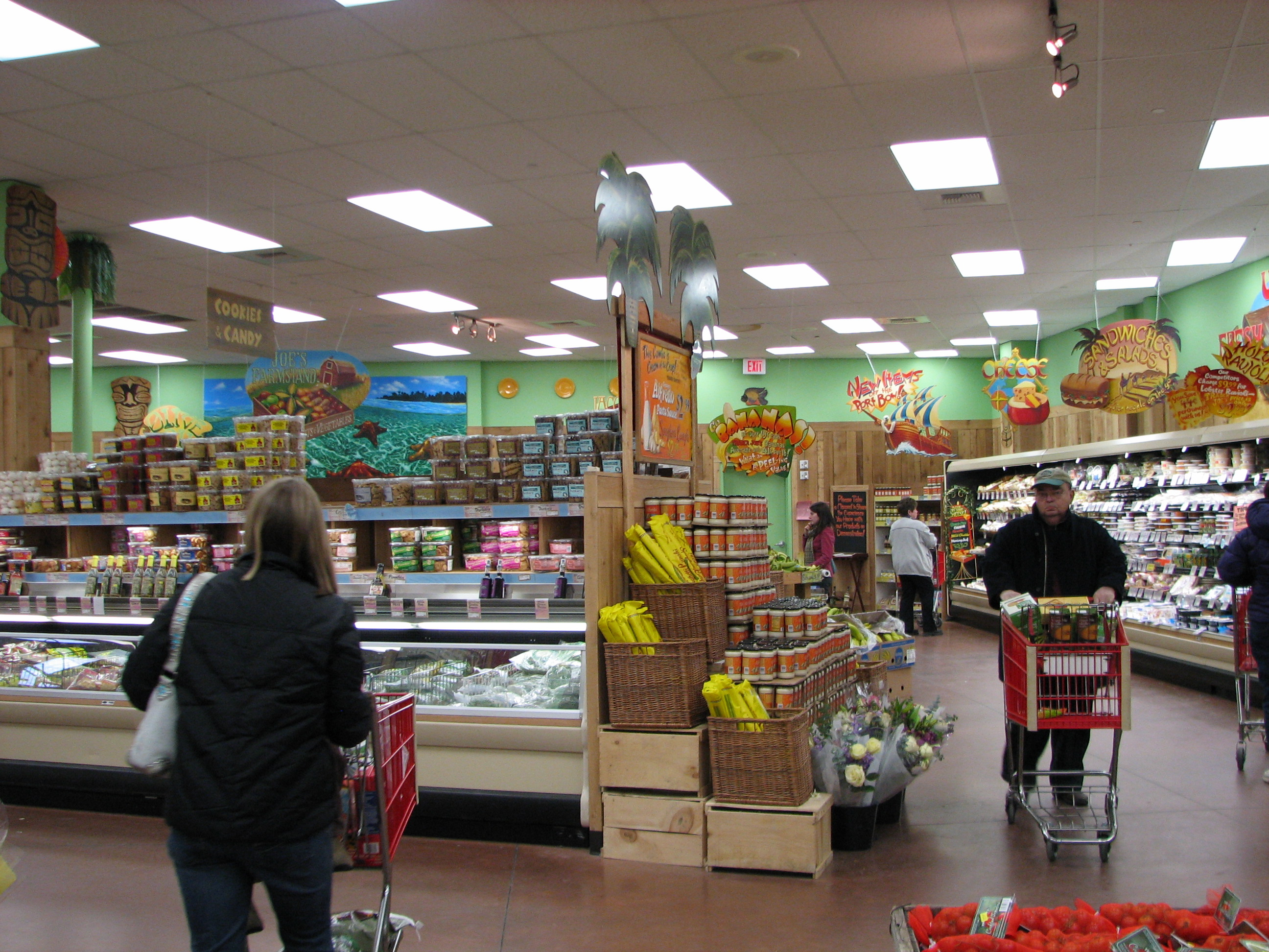 Trader Joe's in West Hartford, Connecticut